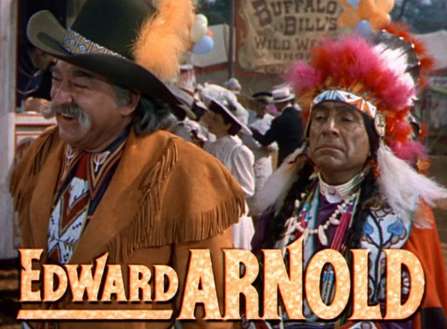 Cropped screenshot of Edward Arnold and J. Carroll Naish from the trailer for the film Annie Get Your Gun